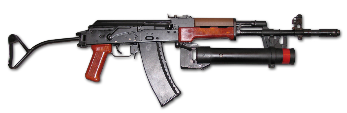 kbk wz. 1988 Tantal, with Pallad underslug grenade launcher